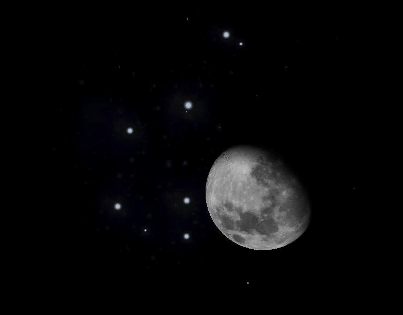 An image of Pleiades and Moon